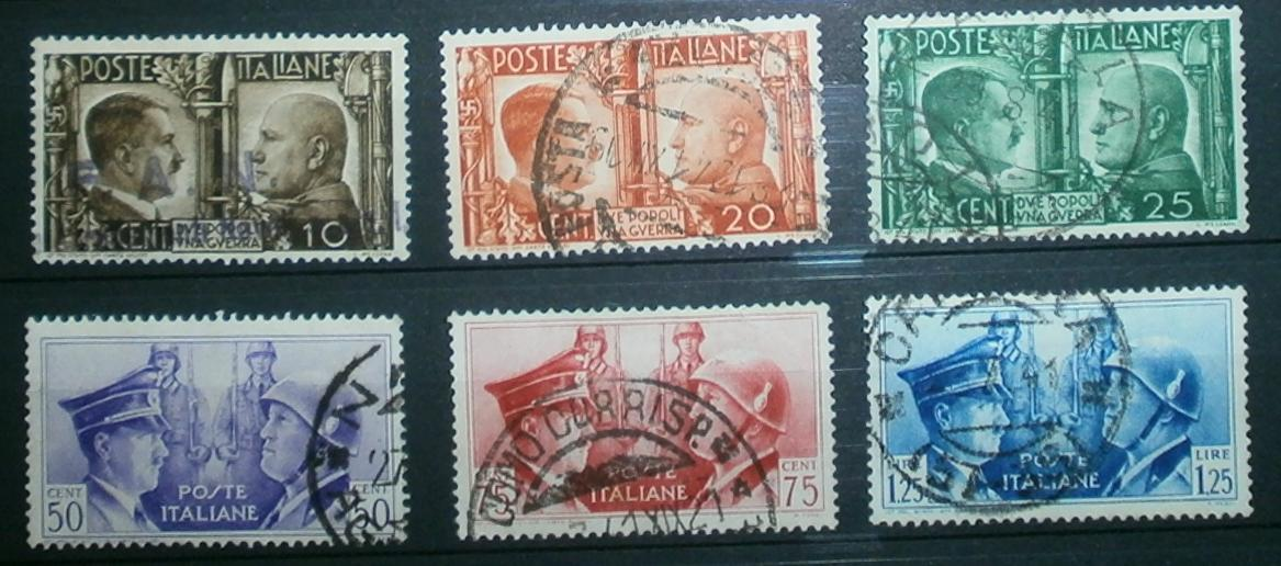 Francobolli fratellanza d'armi italo-tedesca - Due popoli una guerra - Italian Stamps with Hitler and Mussolini - 1941